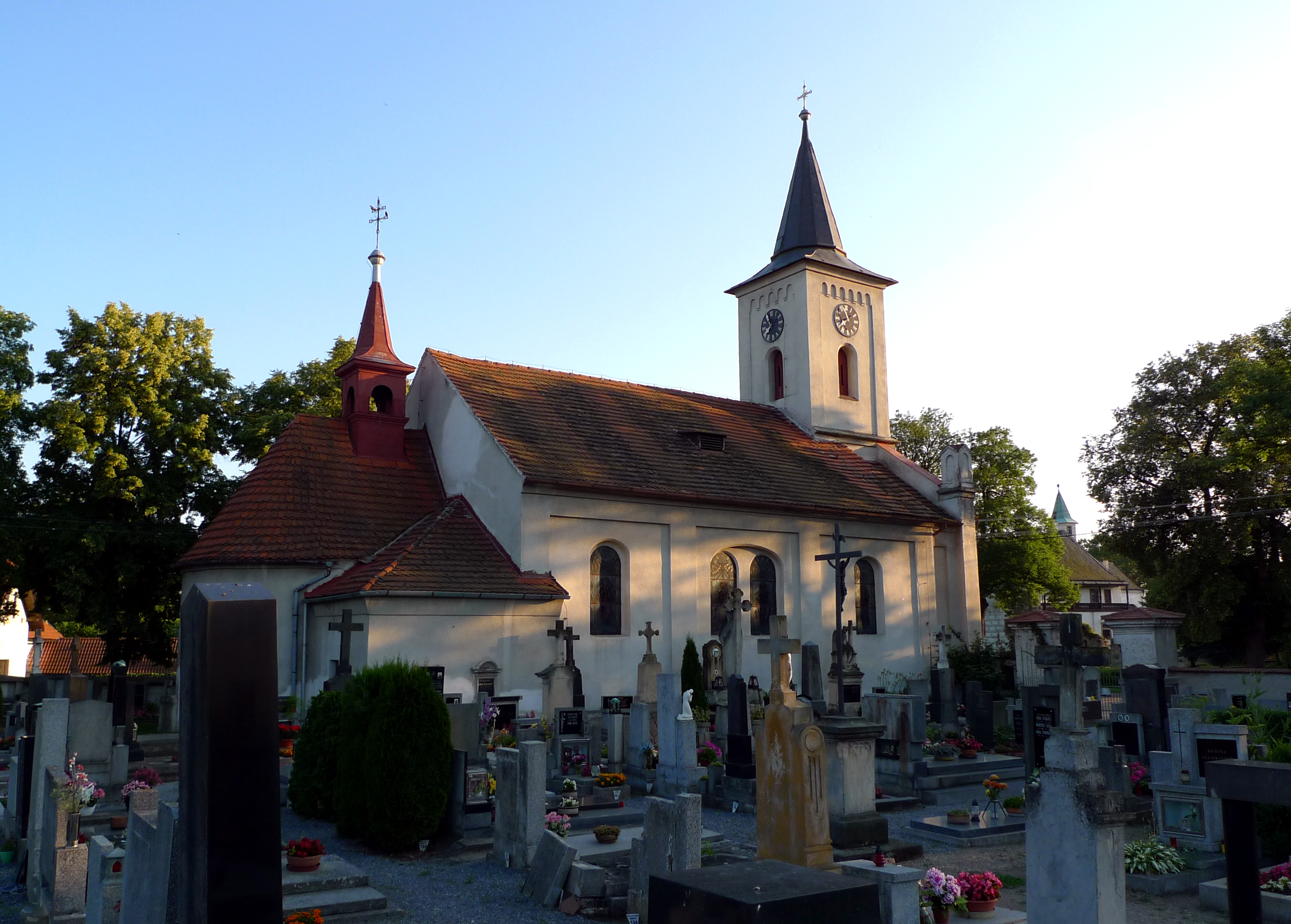 Church in Přerov nad Labem, Czech Republic